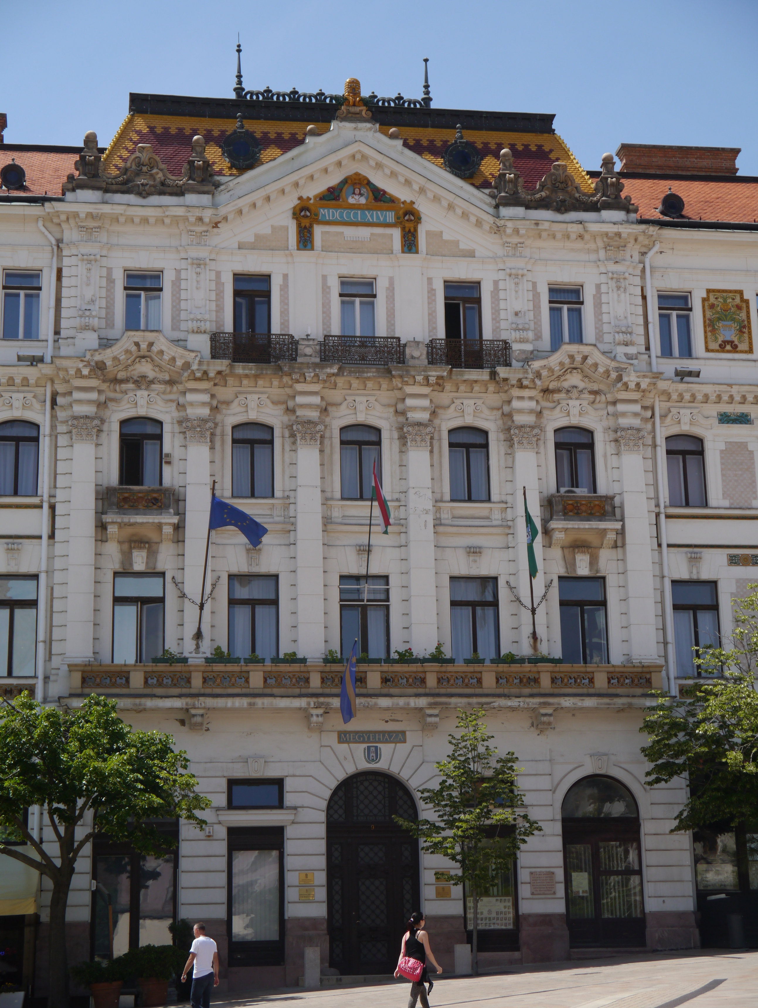 Hungarian House, Pécs, Southern Hungary